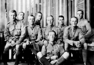 Middle East. c. 1918. A Group of "Cadets" for the Australian Flying Corps, recruited from serving AIF units. Left to right: Back row: Lieutenant (Lt) Murphy, Lt Paul, Lt John Mercer Walker (Killed), Lt Blake. Middle row: Lt Poole (Prisoner of War), Lt Robinson, Lt Dowling, Unknown. Front row: Lt Mcguinness. (Original housed in AWM Archive Store)